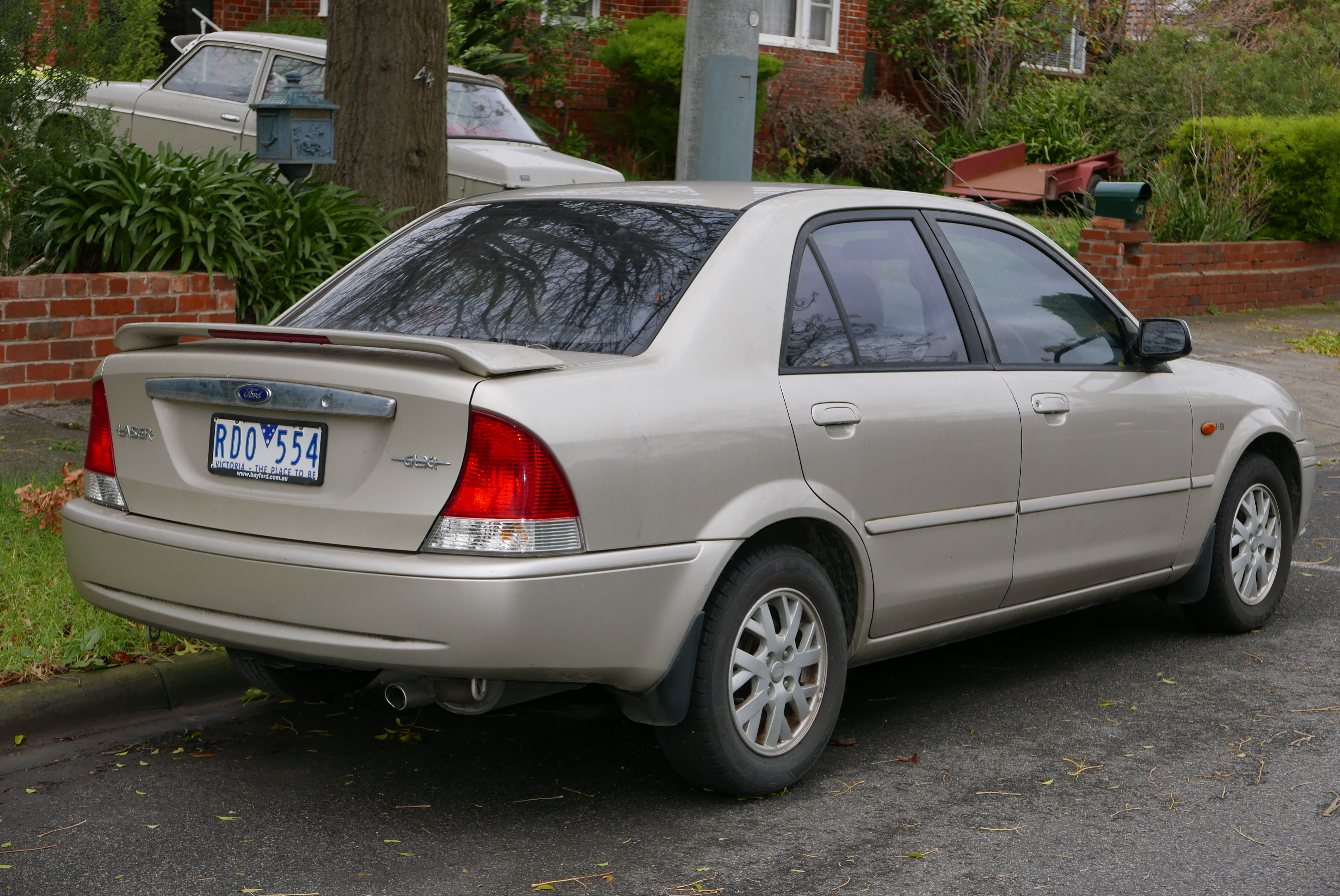 2001 Ford Laser (KQ) GLXi sedan. Photographed in Ivanhoe, Victoria, Australia. Vehicle registration enquiry resultsJurisdictionVictoriaRegistrationRDO554Chassis codeJC0AAASGNM1A51668Engine codeFP757587Compliance date2001-08Year of manufacture2001